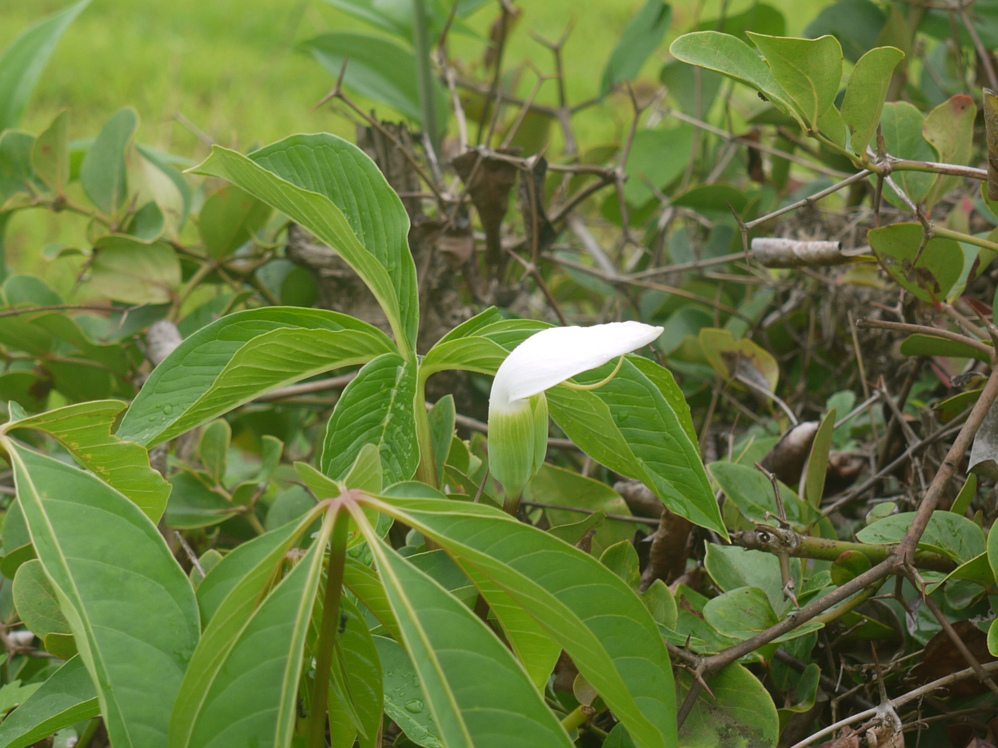 Araceae (aroid, or arum family) » Arisaema murrayi (J.Graham) Hook. air-uh-SEE-muh -- refers to the plant's resemblance to the Arum family and haima (blood) mer-RAY-yee -- named for Dr. James Murray, Superintendent of Mahabaleshwar (1831 to 1839) commonly known as: Murray's cobra lily • Marathi: पांढरा सापकांदा pandhra sap-kanda Endemic to: n Western Ghats (of India) References: Flowers of India • The Plants List • Flowers of Sahyadri by Shrikant Ingalhalikar